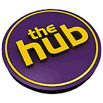 The hub logo